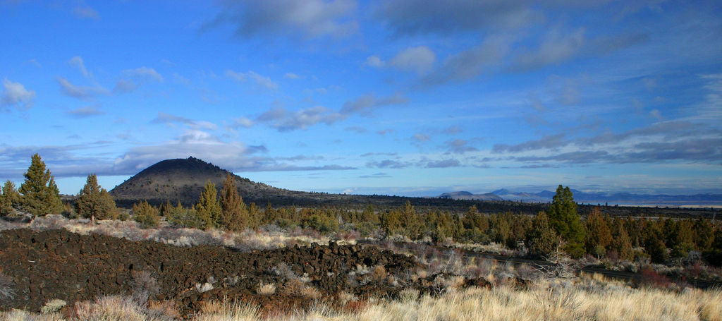 Lava Beds National Monument, California at dawn